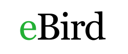 The logo of eBird